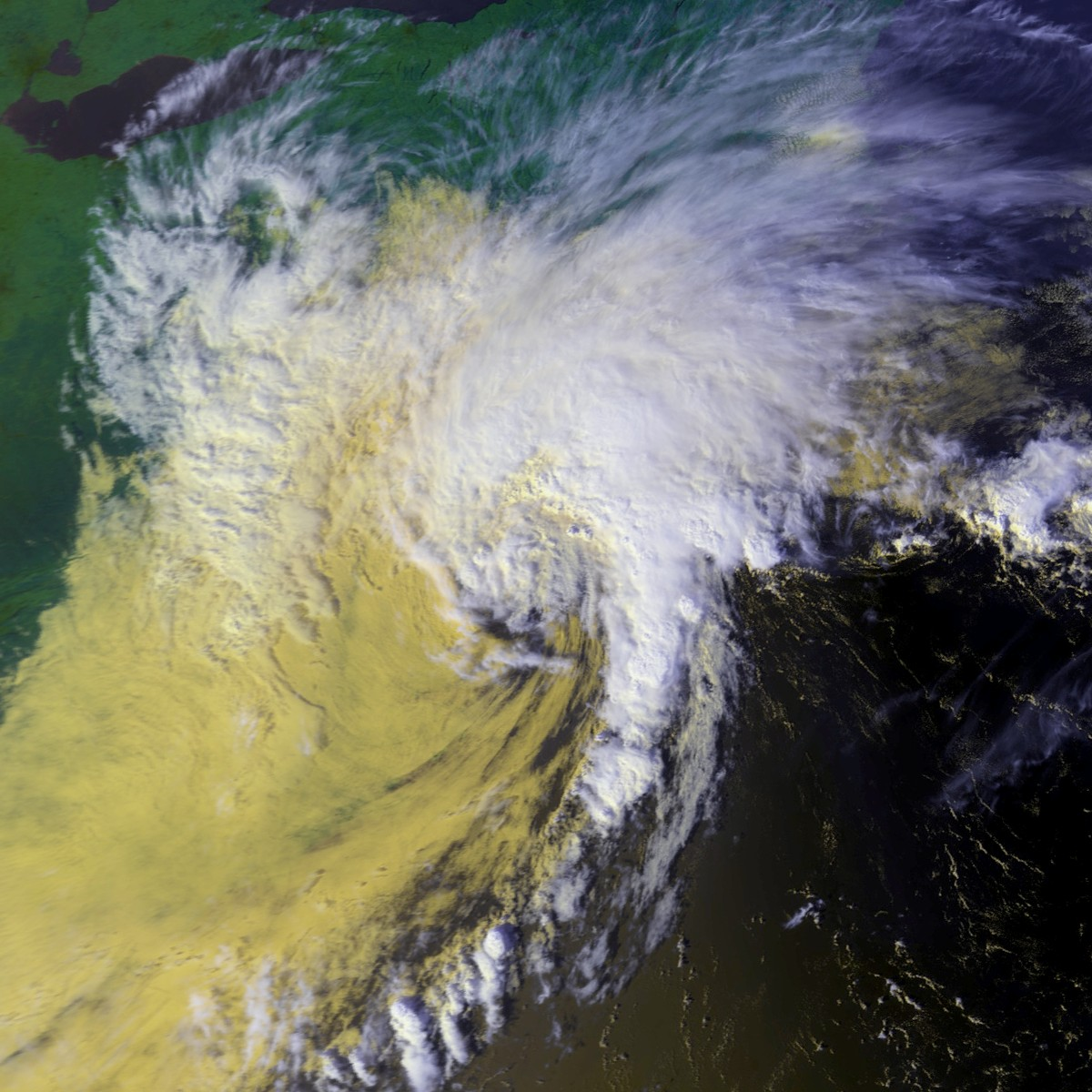 Tropical Storm Danielle on September 25 at approximately 1916 UTC. This image was produced from data from NOAA-11, provided by NOAA.